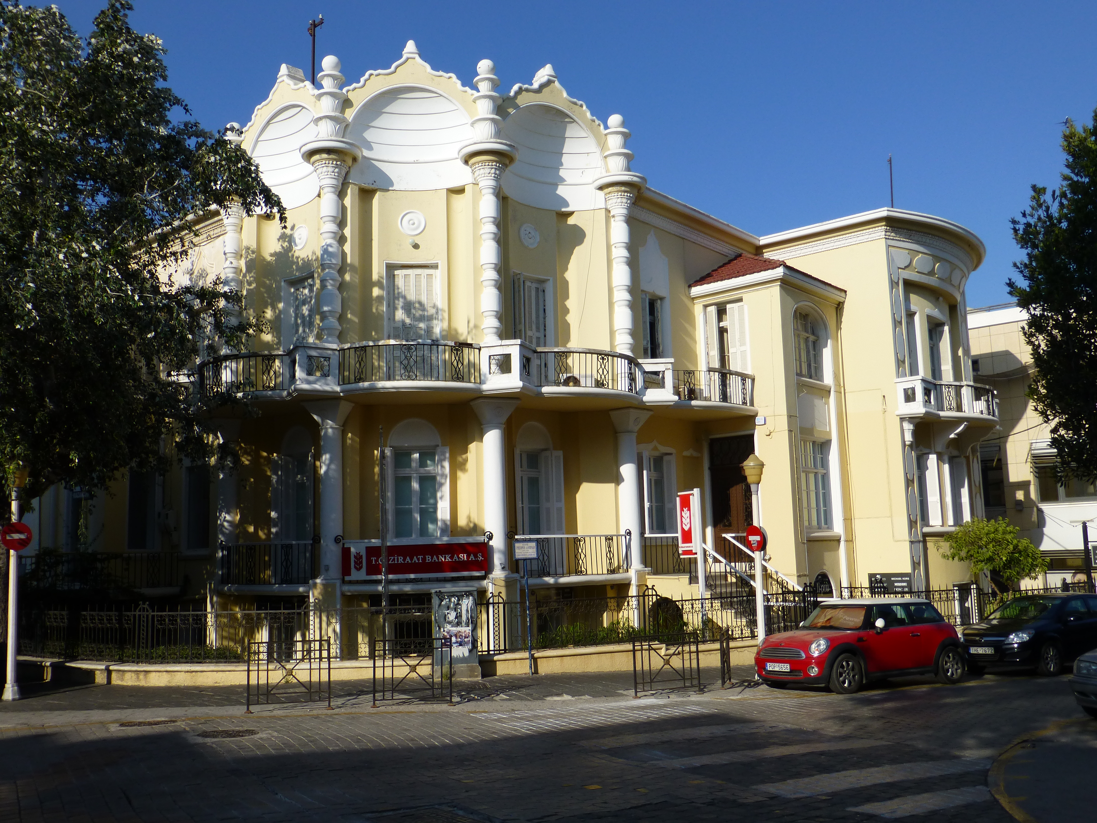 Italian "Orientalist" building in Rhodes city, Rhodes, Greece.